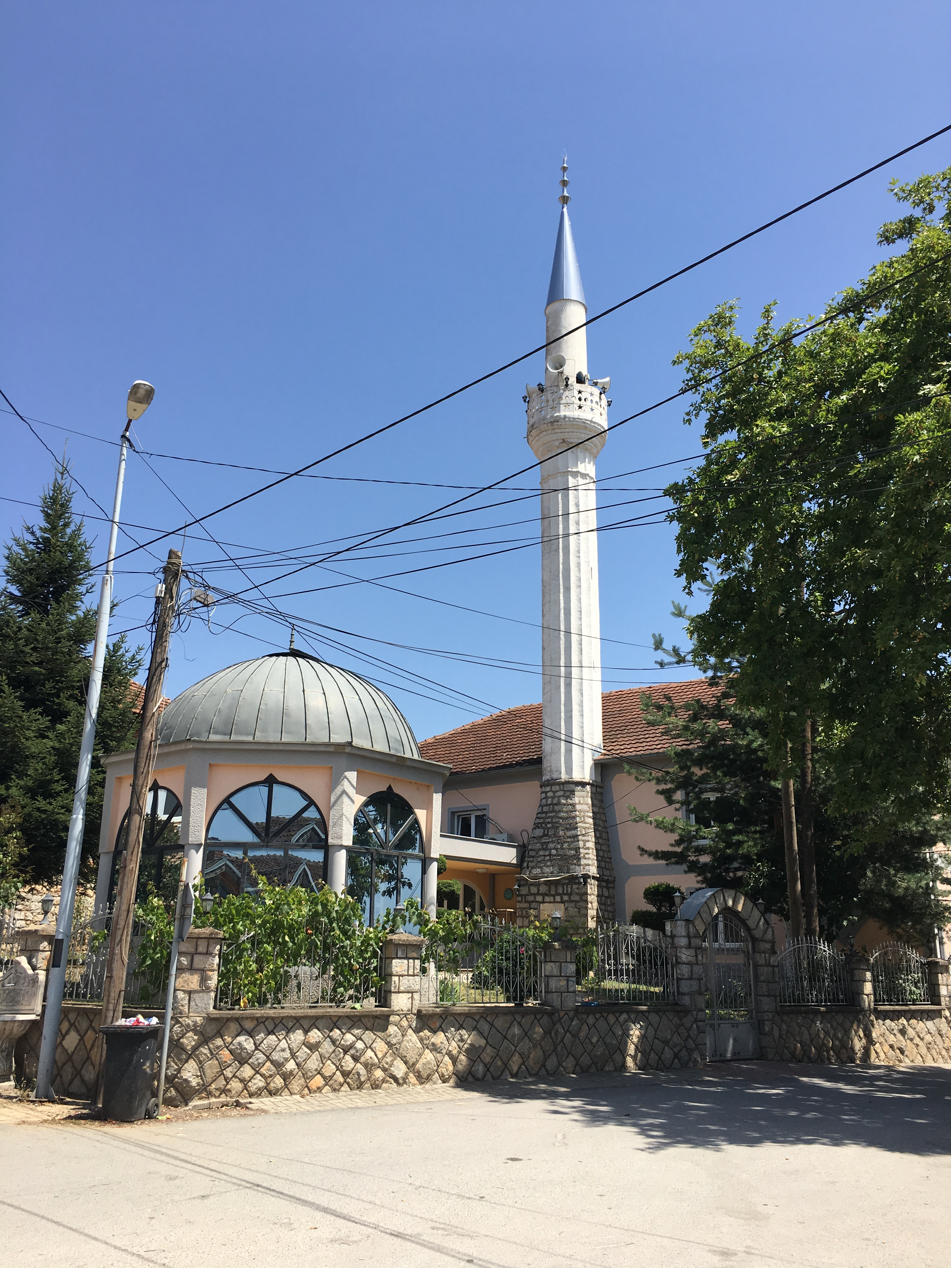 Teḱe mosque in the village Velešta